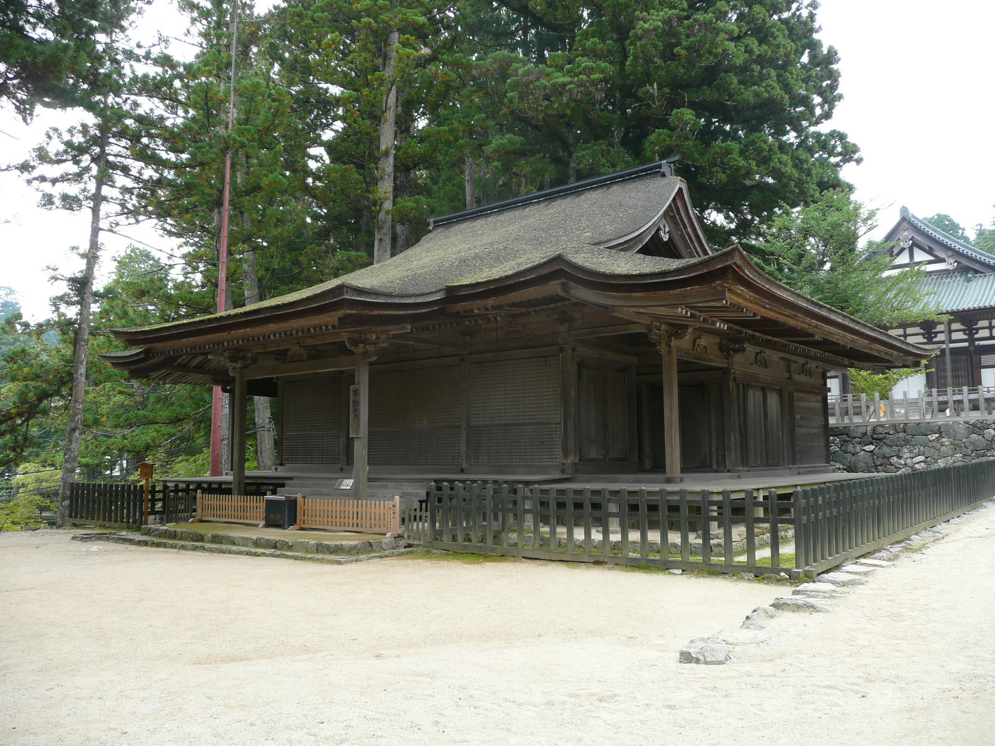 Fudōdō is a national treasure,Koyasan,Japan.